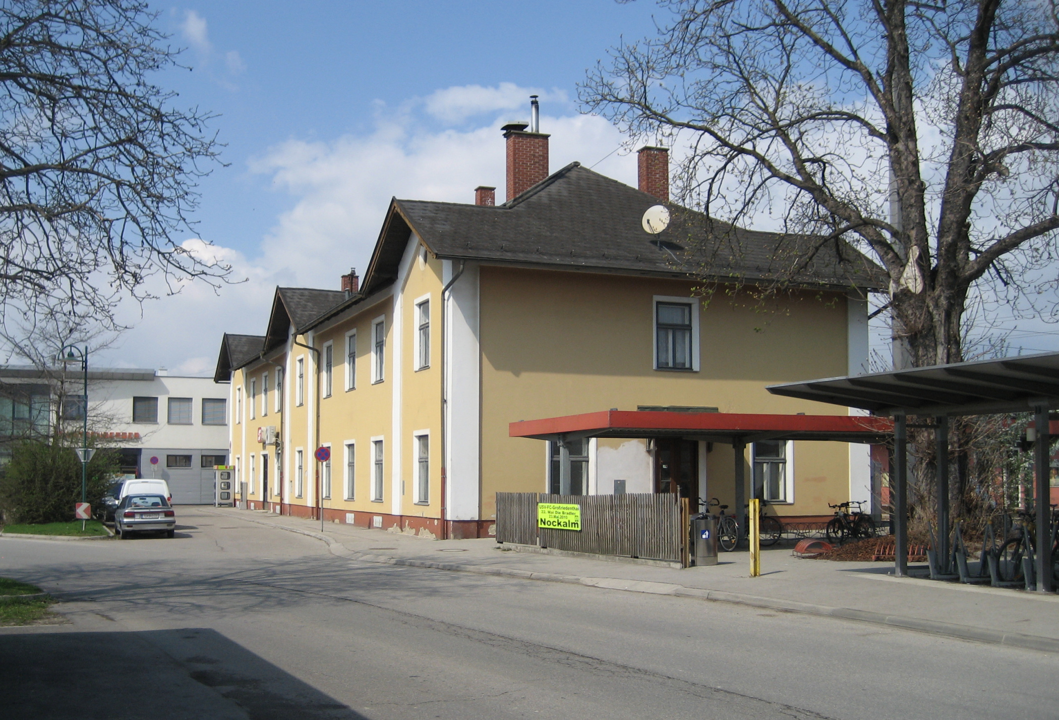 train station Absdorf-Hippersdorf in Lower Austria